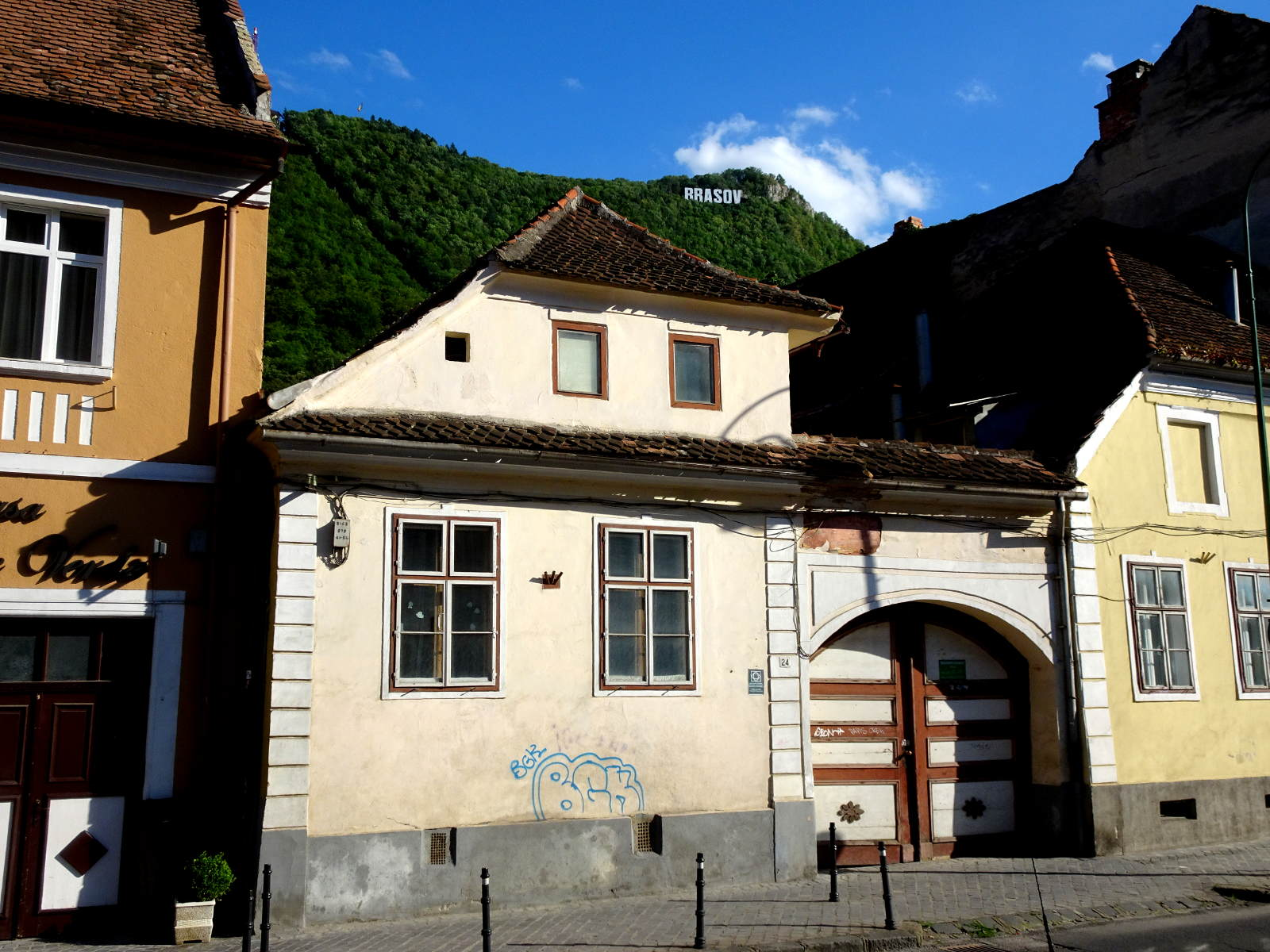 House in Bălcescu street, Brașov